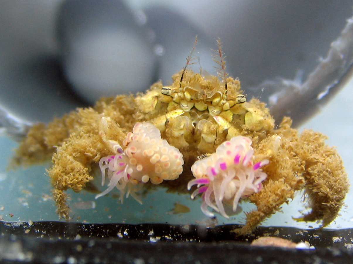 Lybia leptochelis collected directly from the sea holding typically similar sized Alicia sp. anemones.